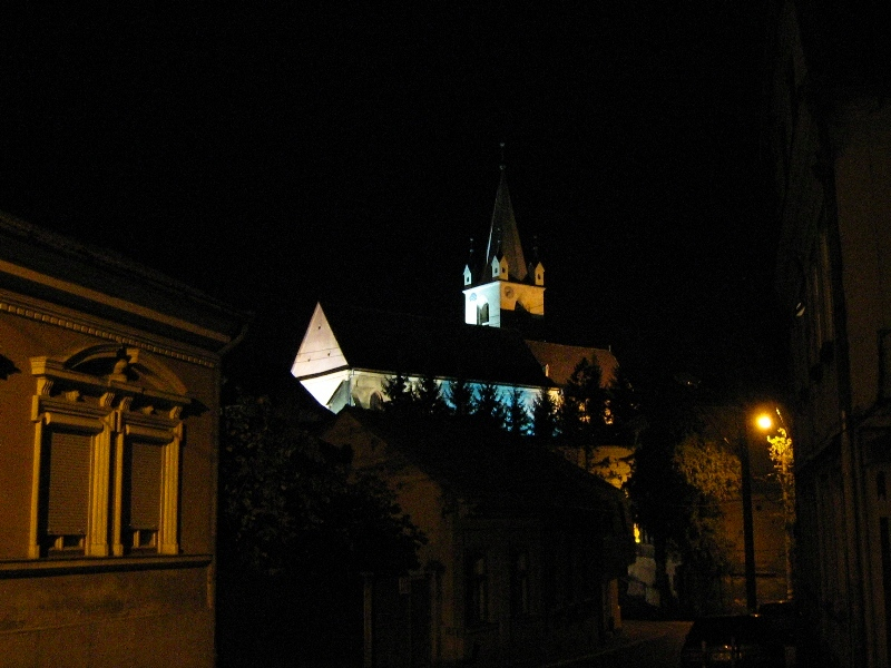 Castlechurch of Targu Mures by night